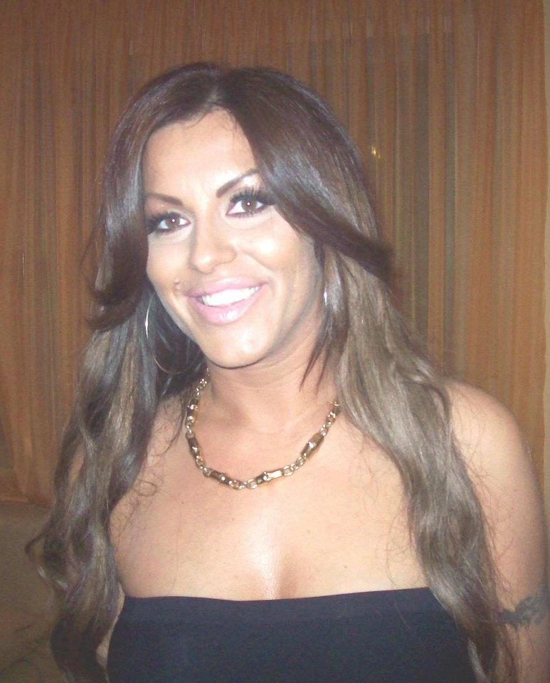 Photo of Seka Aleksić taken by me at the Club Plaza in Lukavac, Bosnia and Herzegovina. I have previously published this photo on Facebook.